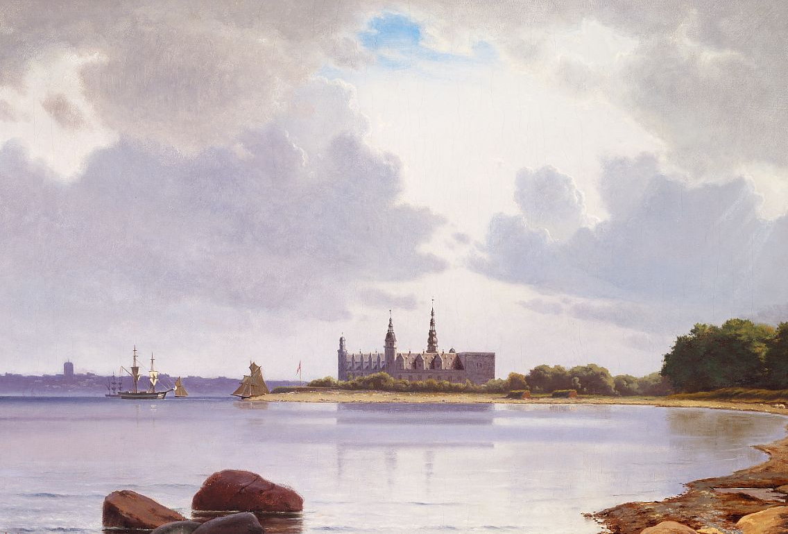 View of Kronborg and Kärnan, 1871Dansk: Udsigten mod Kronborg og Kernen